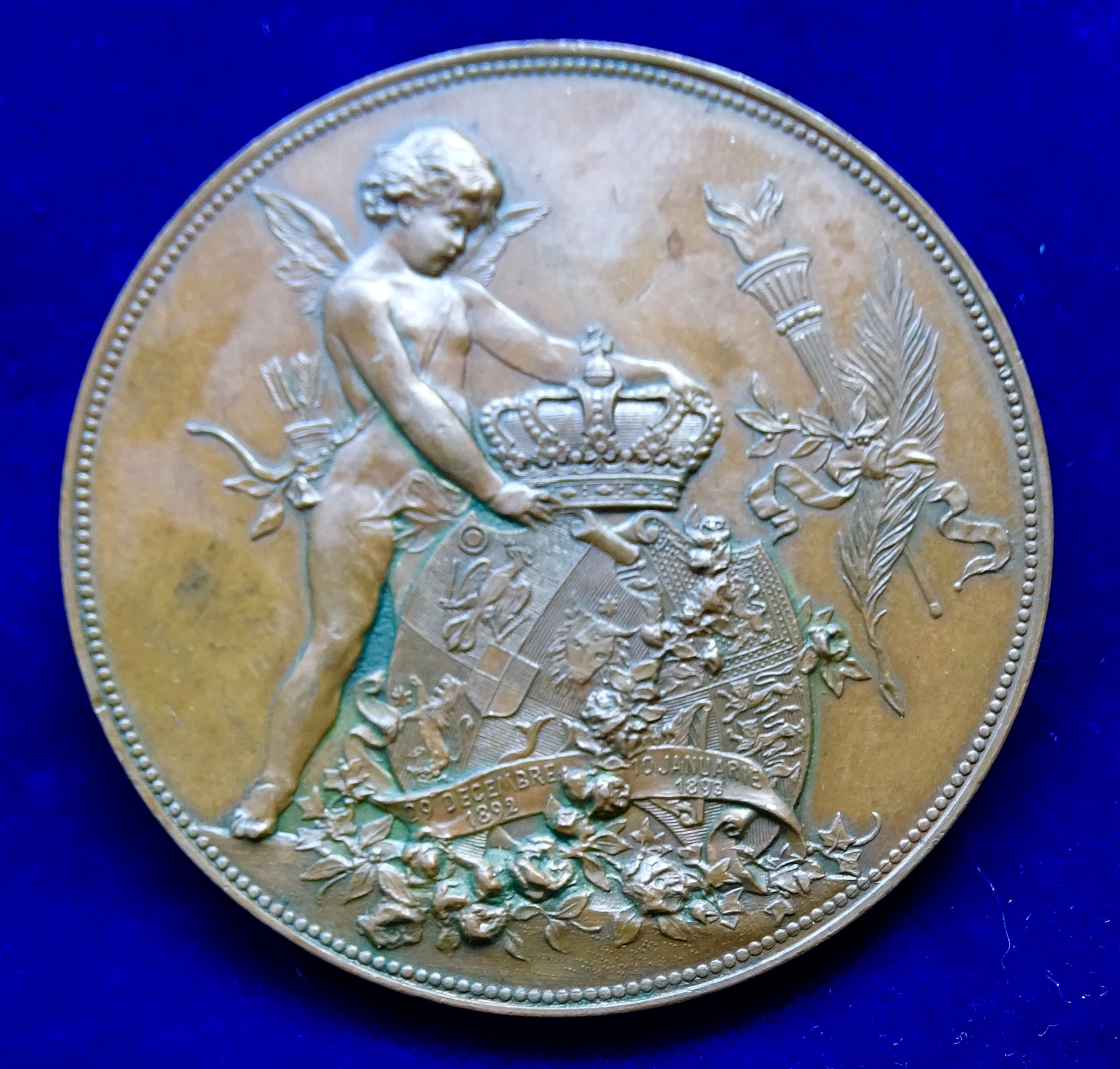 This wedding took place in Sigmaringen, Württemberg, Germany, the place of birth of Ferdinand I. Bronze medallion d. = 50 mm. Ferdinand I (Ferdinand Viktor Albert Meinrad), King of Romania, 1914- 1927 and Maria, Alexandra Victoria, Princess Marie of Edinburgh, 1875 Eastwell Park, Kent, England - Pelișor Castle, Sinaia, Romania. Queen Victoria of the United Kingdom of Great Britain and Ireland was her grandmother. Conjoined busts l., 2 lines around: "* FERDINAND PRICIPE MOSTENITOR * AL ROMANIEI * MARIA PRICIPESA DE MAREA BRITANIA * SI IRLANDA"/ Cupid crowning the royal coat of arms of Romania and Great Britain. On ribbon below: "29 DECEMBRE 1892 10 JANUARIE 1983". Wurzbach 2074. Eimer 1779. Medallist: A. (Anton) Scharff, 1845 Wien - 1903 Brünn, Austria Condition: EXTREMELY FINE, little tarnish.